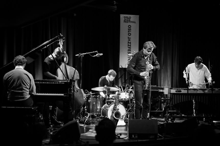 Marius Nese perform at Victoria Teater during Oslo Jazzfestival 2015. Band members: Marius Neset - Saksofoner, Frans Petter Eldh - Kontrabass, Anton Eger - Trommer, Jim Hart - Vibrafon, Ivo Neame - Piano/Keyboard